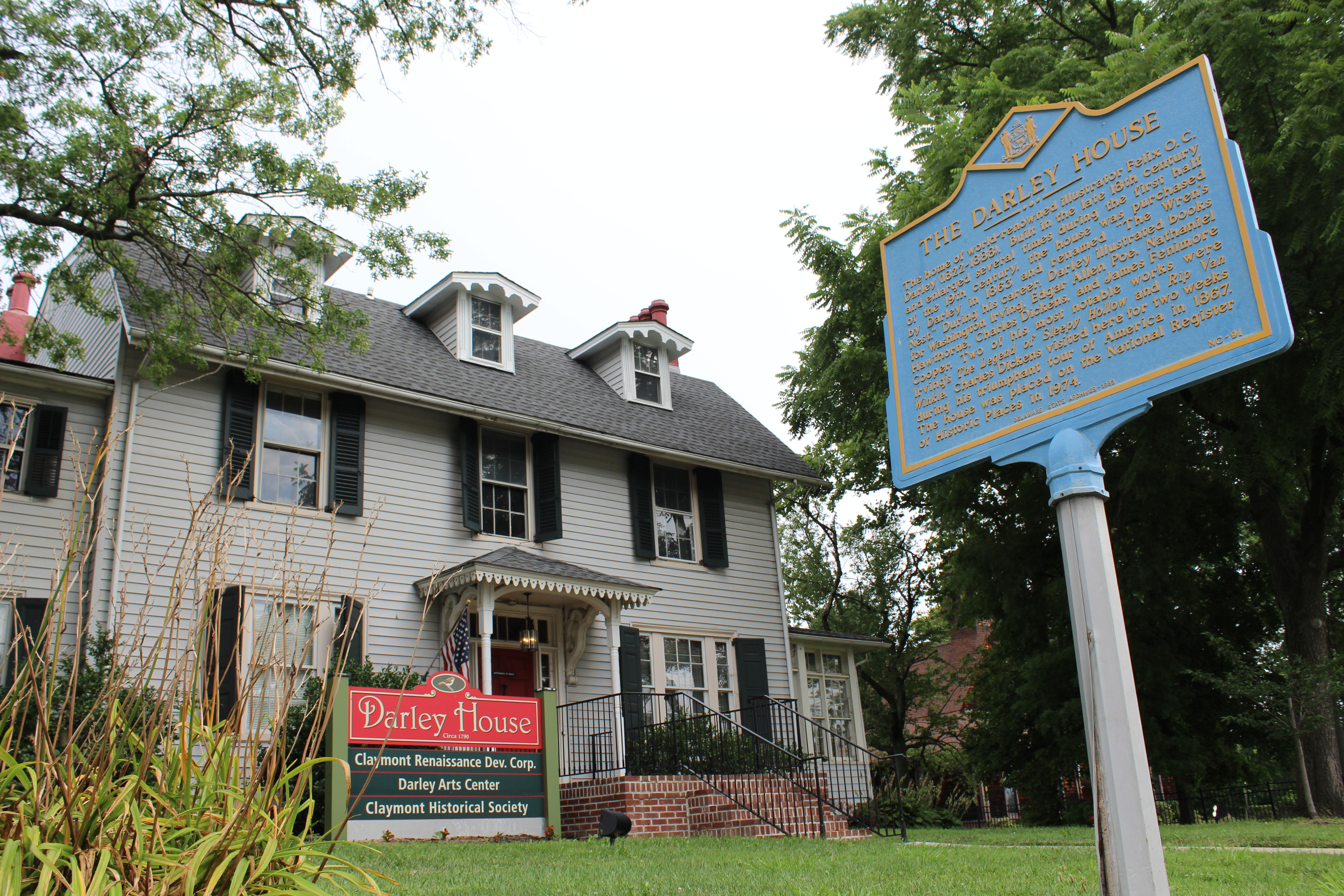 The Darley House in Claymont, Delaware is on the National Register of Historic Places